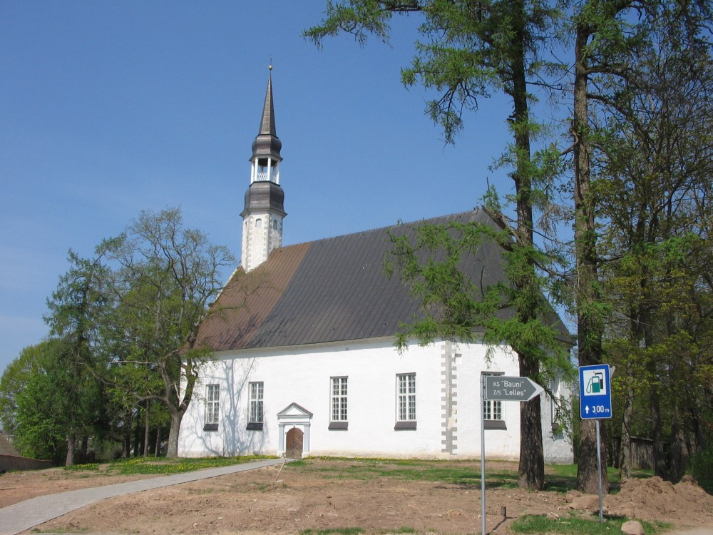 Matīši Saint Matthew Evangelical Lutheran ChurchLatviešu: Matīšu Svētā Mateja evaņģēliski luteriskā baznīca